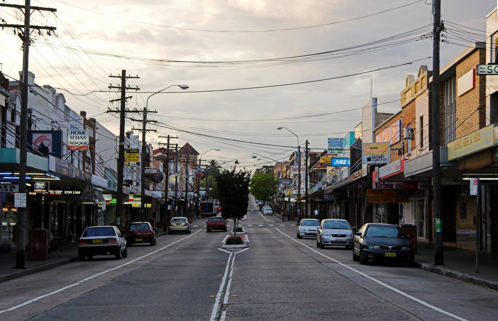 Photo taken 07 Jan 2007 by blu3d looking up Haldon Street, Lakemba, New South Wales.